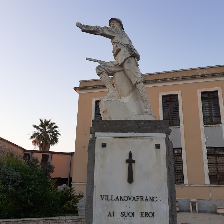 Monumento ai caduti di Villanovafranca